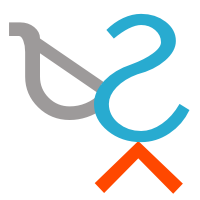 Gujarati script shtra consonants combination